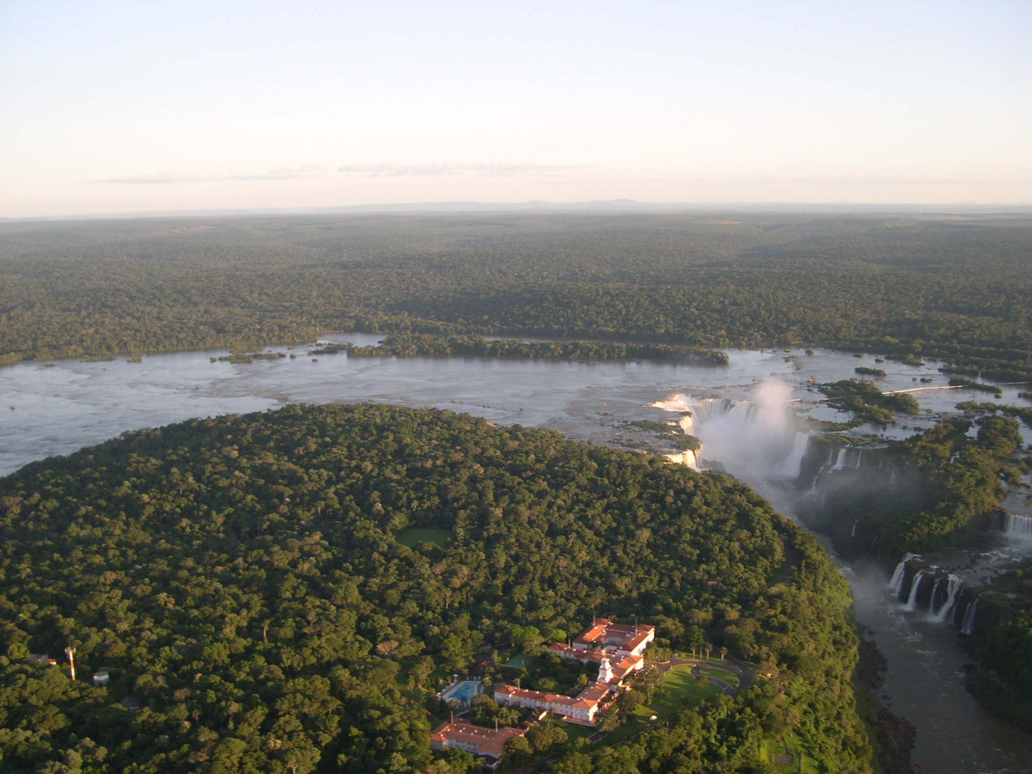 Iguazu River Falls Hotel